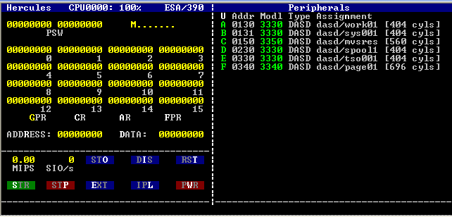 Screenshot of emulator Hercules 3.02 (QPL licence) running in a window on Windows XP showing GUI of mainframe operating system MVS (Multiple Virtual Storage, OS/360 370/390 compatible). On the right are the virtual DASD volumes. Current version looks like this.